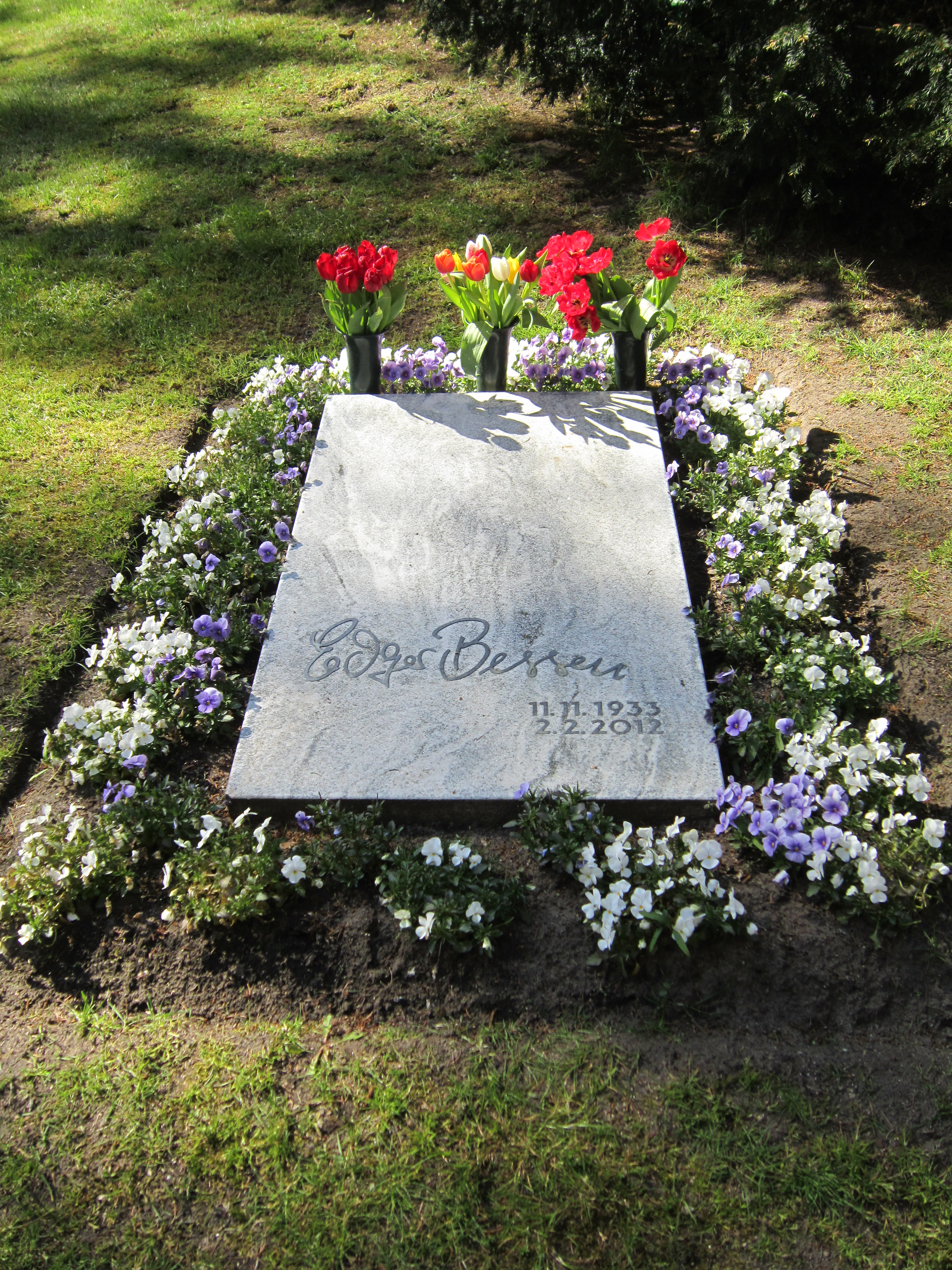 Grave of Edgar Bessen (former actor at the Ohnsorg Theatre Hamburg) at Ohlsdorf Cemetery Hamburg